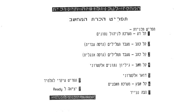 TOAM - Login Screen